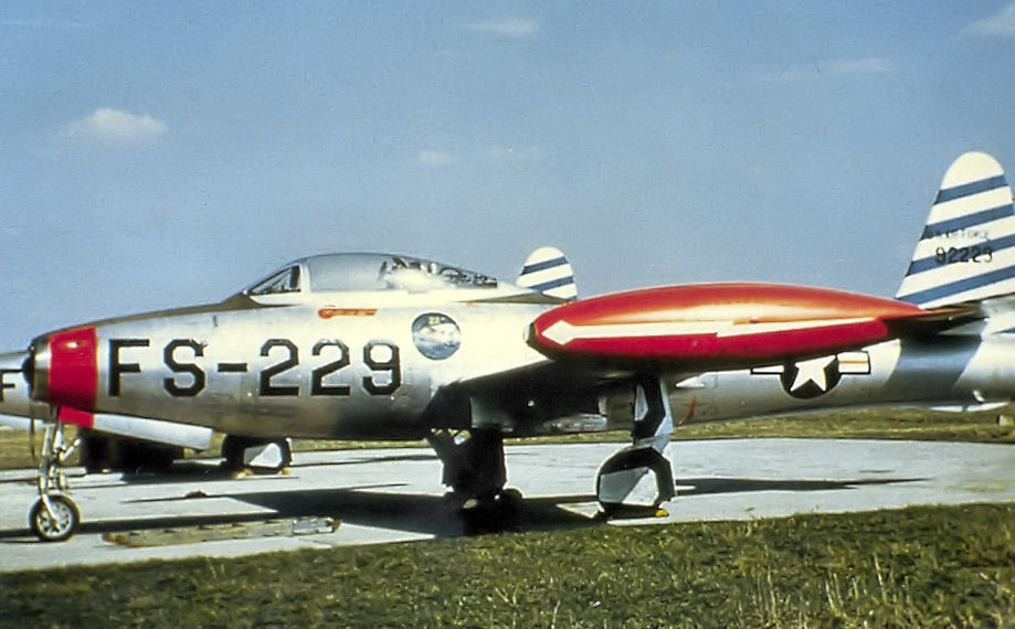 22d Fighter-Bomber Squadron - Republic F-84E-10-RE Thunderjet - 49-2223